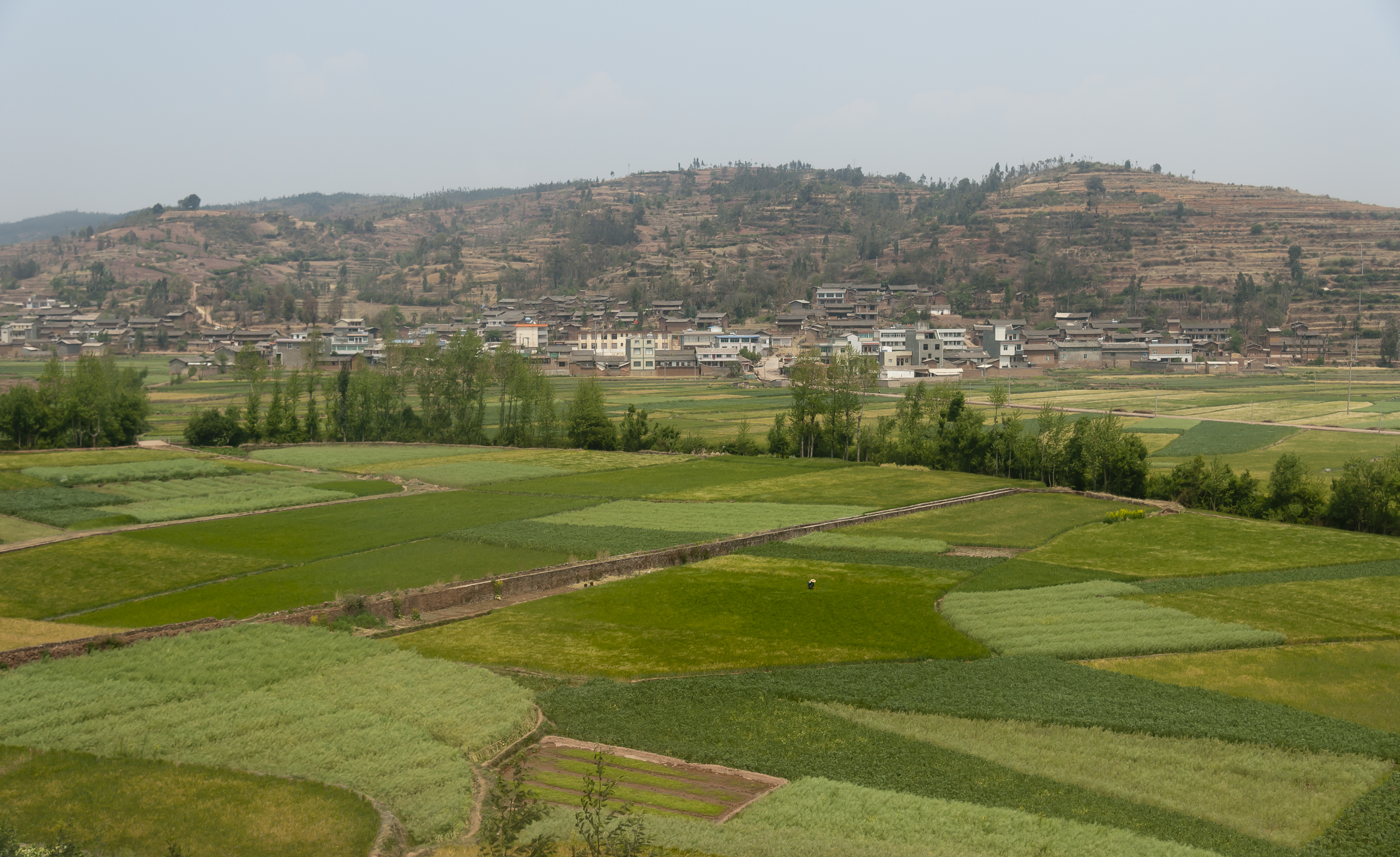 Yunnan, China:growing of cereals near Yuanmou